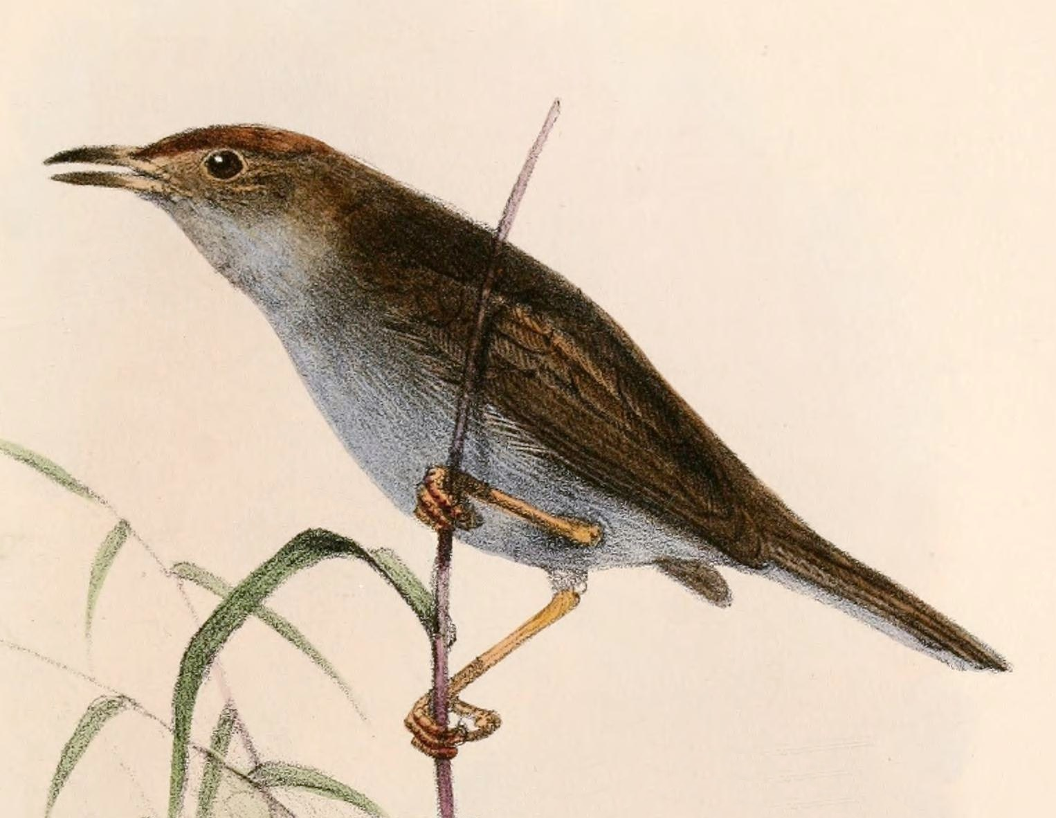 « Camaroptera natalensis » = Cisticola fulvicapilla dumicola (Subspecies of Neddicky)